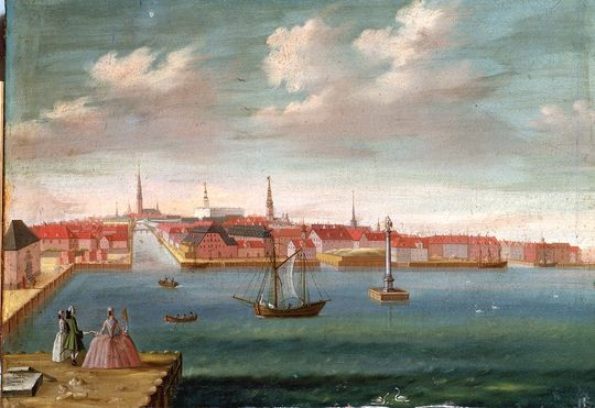 seen from Christiansborg